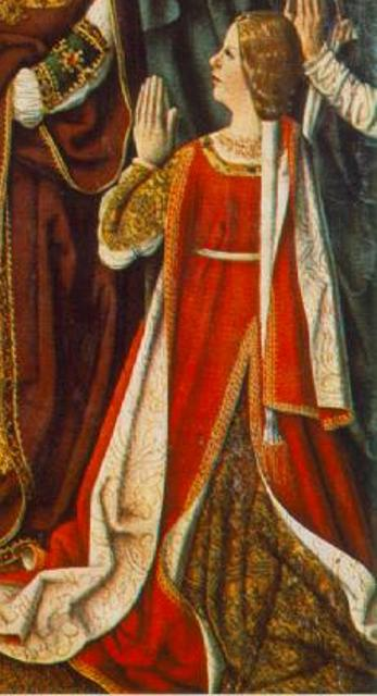 rainha, princesa portugal